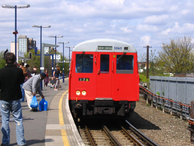 East London Line terminus, New Cross Passengers wait to board an incoming East London Line train. This service will terminate by the end of 2007. When rebuilding of the line is complete it will become part of the "overground" rather than "underground" network.